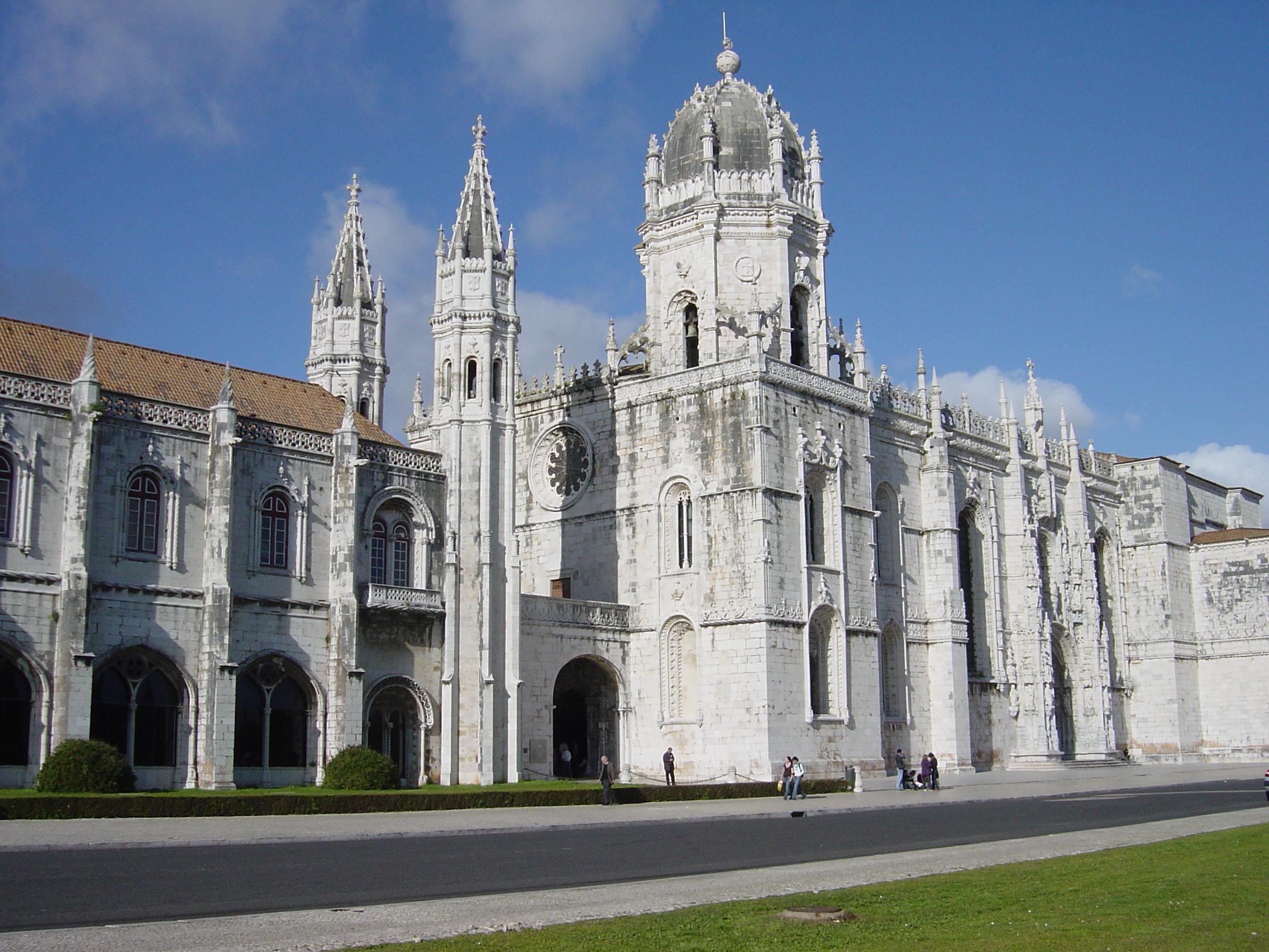 The Monastery of Jerónimos, Lisbon, Portugal.